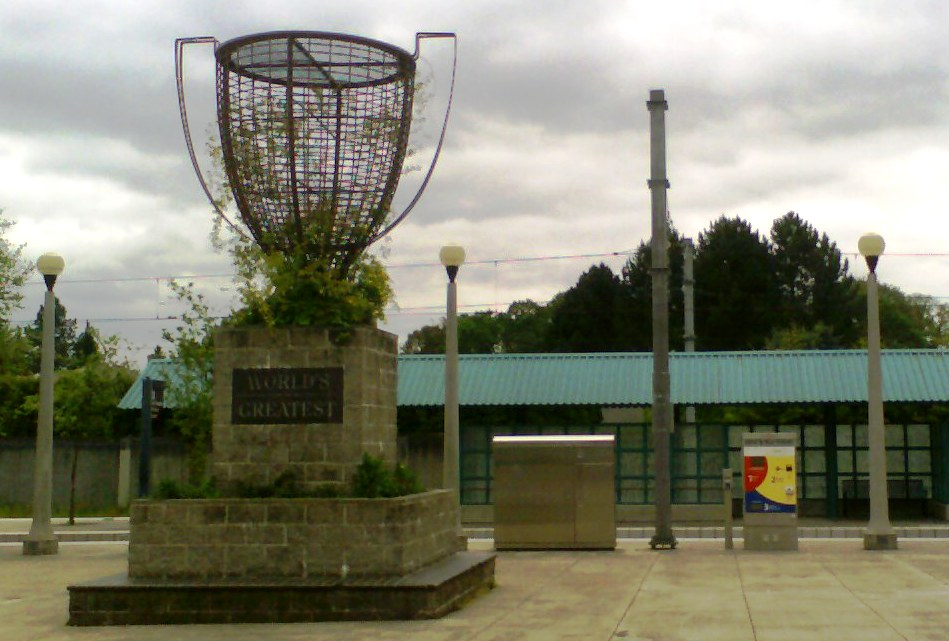 Fair Complex/Hillsboro Airport (MAX station)